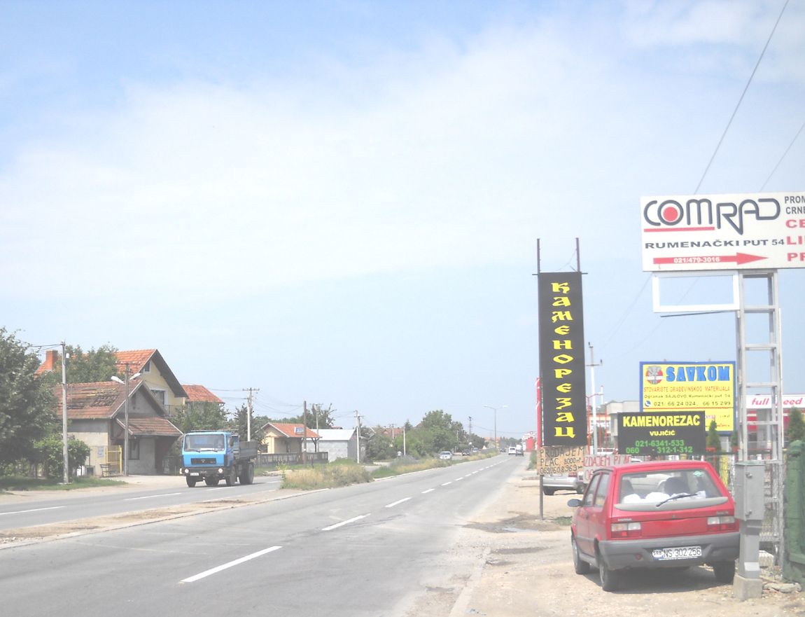 Street in Sajlovo neighborhood in Novi Sad.